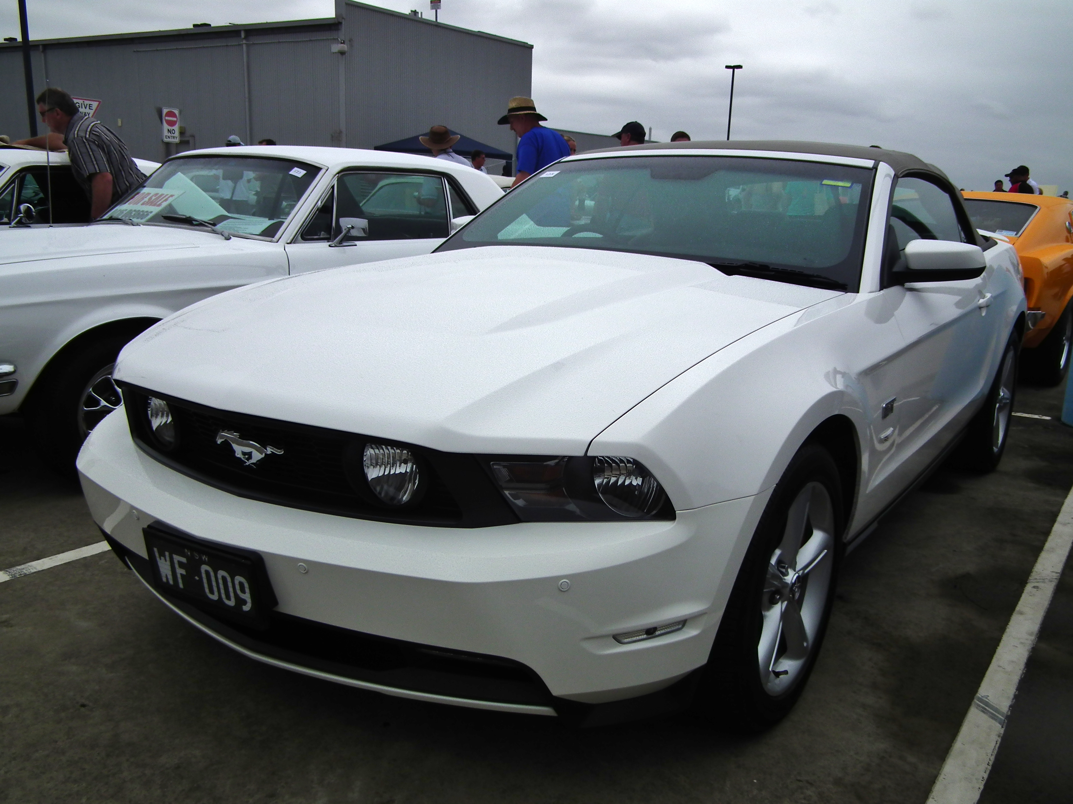 2010 Ford Mustang GT convertible. Taken at the 2013 New South Wales All American Day, held at Castle Towers Shopping Centre, Castle Hill, Sydney.